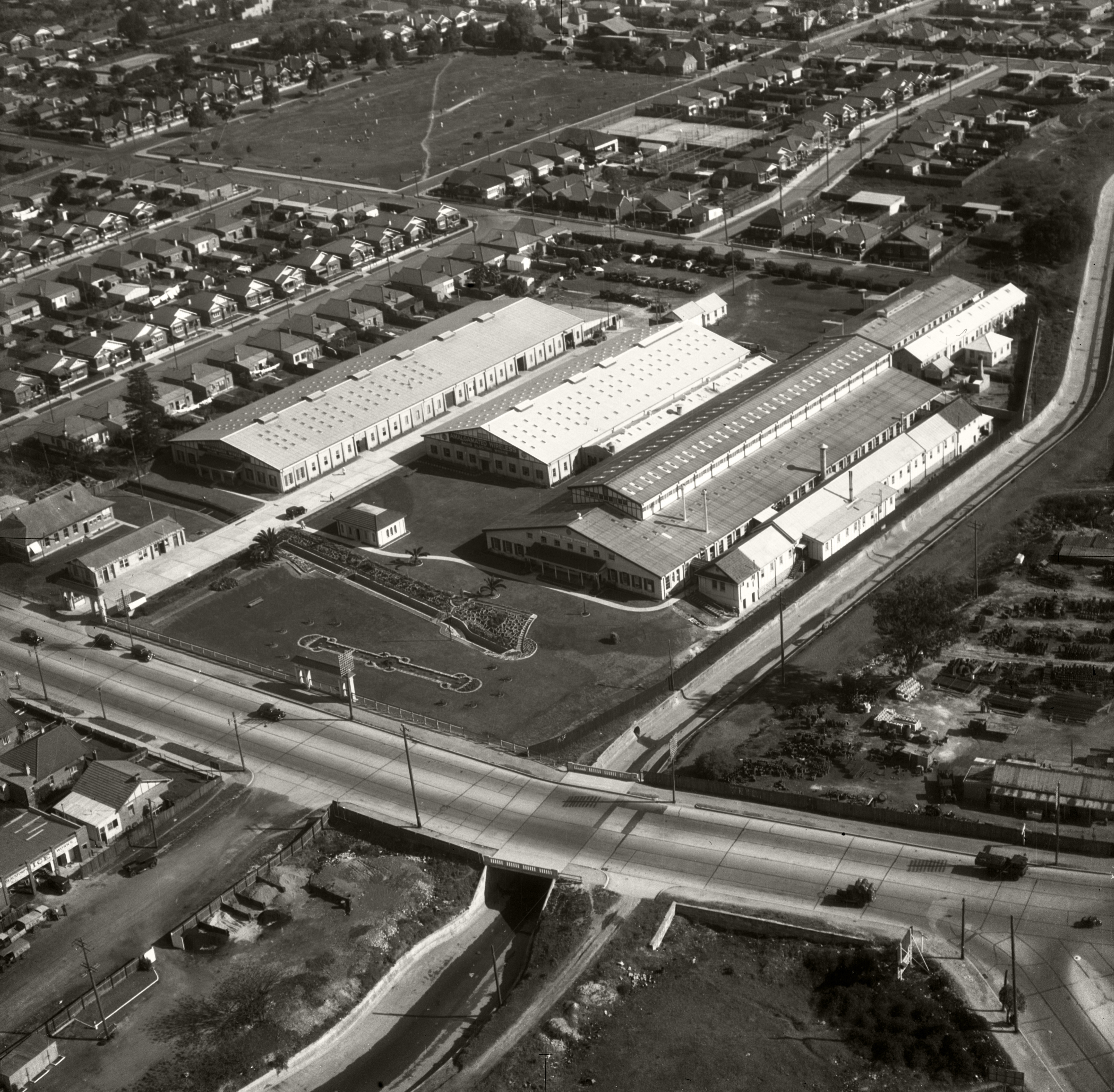 Amalgamated Wireless Australasia is an electronics manufacturer and broadcaster based out of Sydney, Australia. This is an aerial view of one this companies manufacturing factories built in Burwood on Parramatta Road.